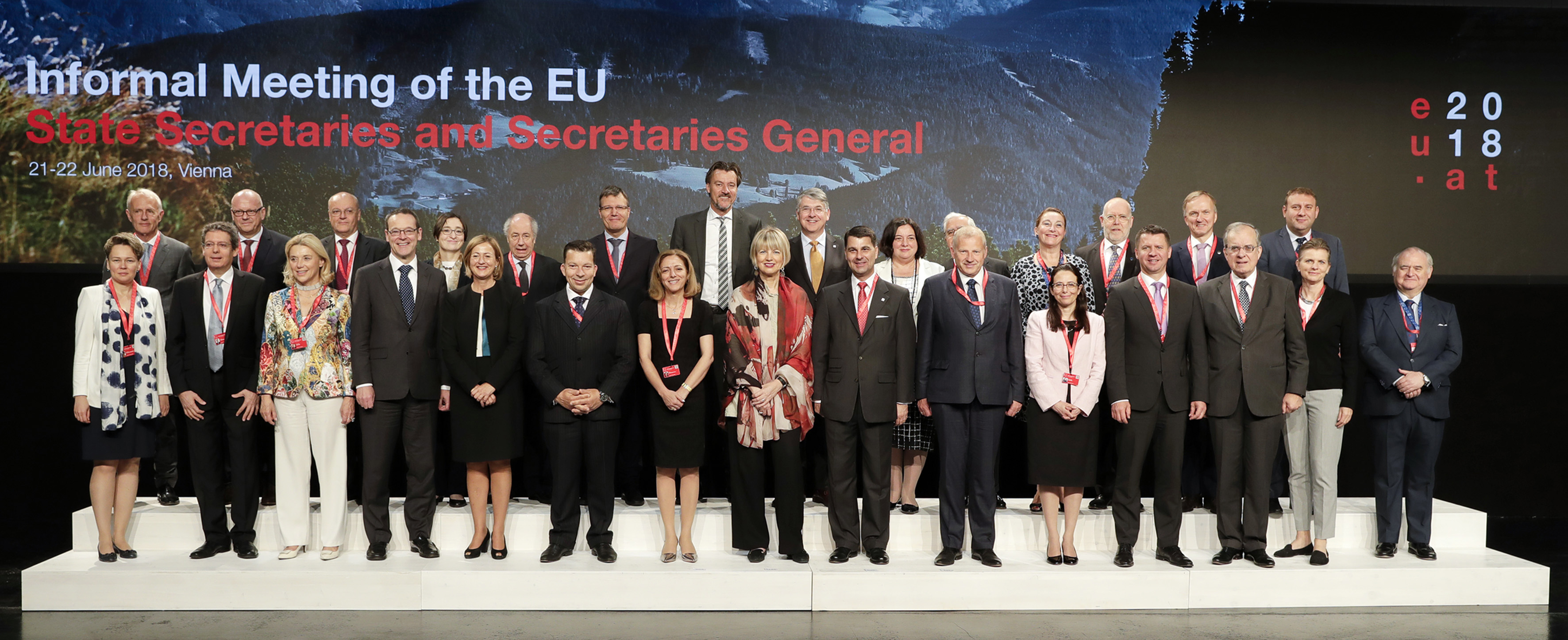 Informal meeting of EU State Secretaries and Secretaries-General from foreign ministries of EU member states on 22nd June 2018. Copyright: BKA/Andy Wenzel